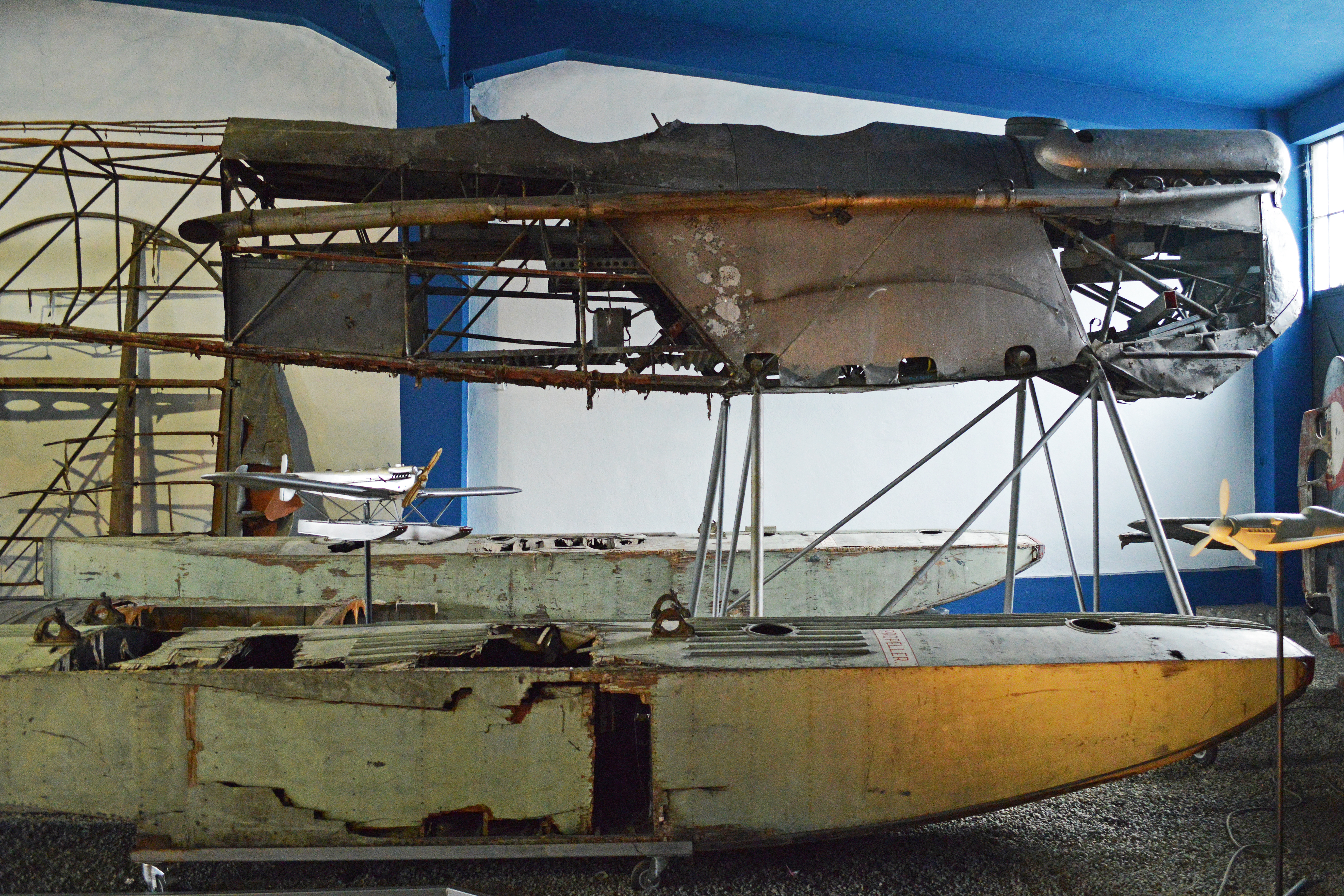 The Heinkel HE 5 was a reconnaissance floatplane built during the 1920s. It was a low-wing, strut-braced monoplane which mainly saw service with the Swedish Air Force. The example is an HE-5f which was used by German clandestine naval aviation units disguised as training schools for airlines. This is one of only two surviving HE-5 airframes and is c/n 117. It is on display in a building full of unrestored aircraft at the Muzeum Lotnictwa Polskiego. Krakow, Poland. 23-8-2013.